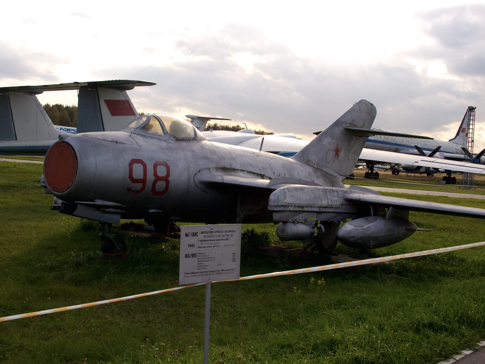 MiG-15bis on display at Monino aircraft museum.